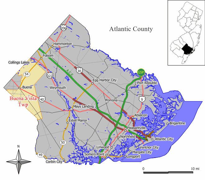 Source: Jim Irwin Original work by Jim Irwin, December 2005.